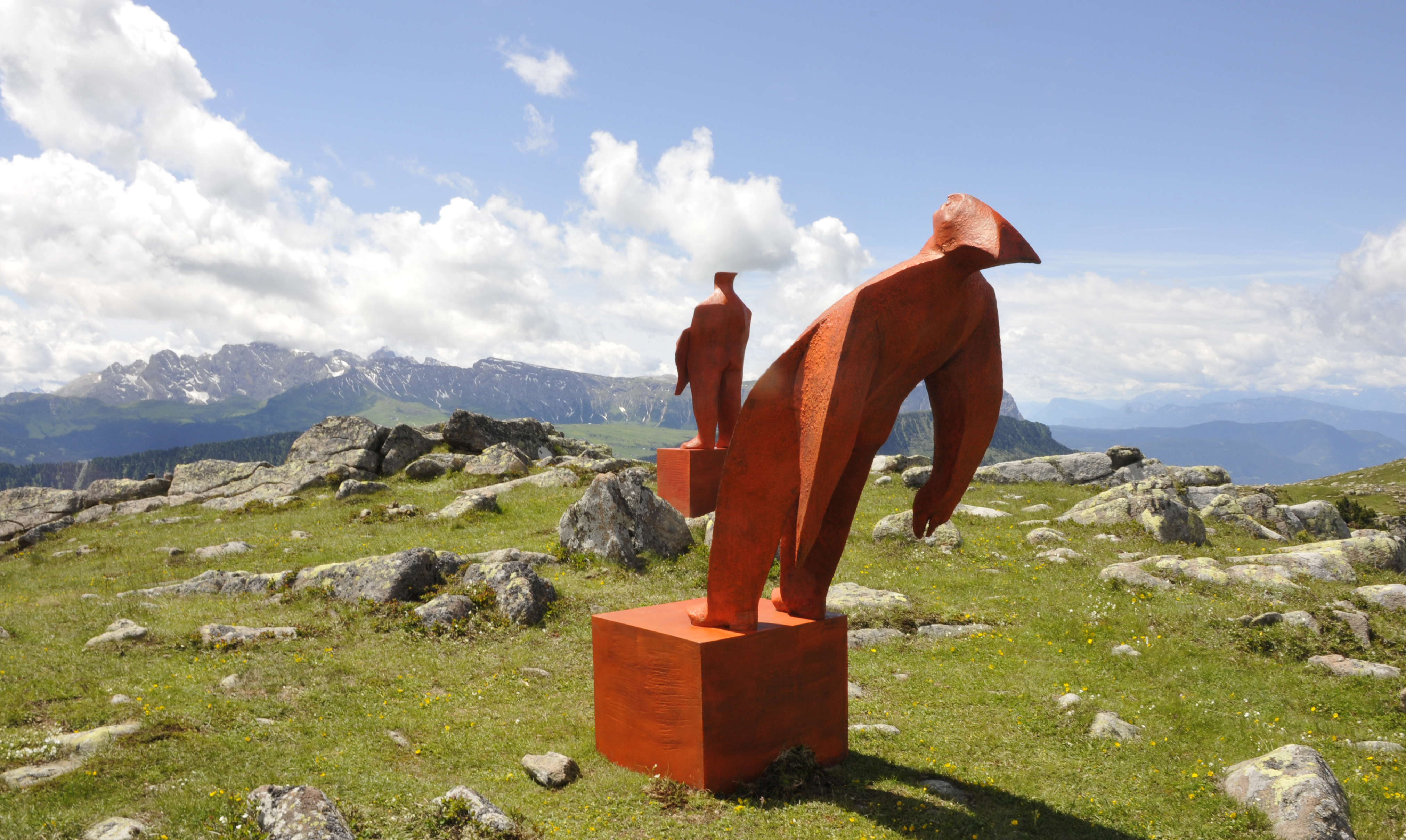 Wilhelm Senoner sculptor in Val Gardena, bronze statues on the Resciesa "In the scent of the wind", "Im Duft des Windes", "Nel Profumo del vento"